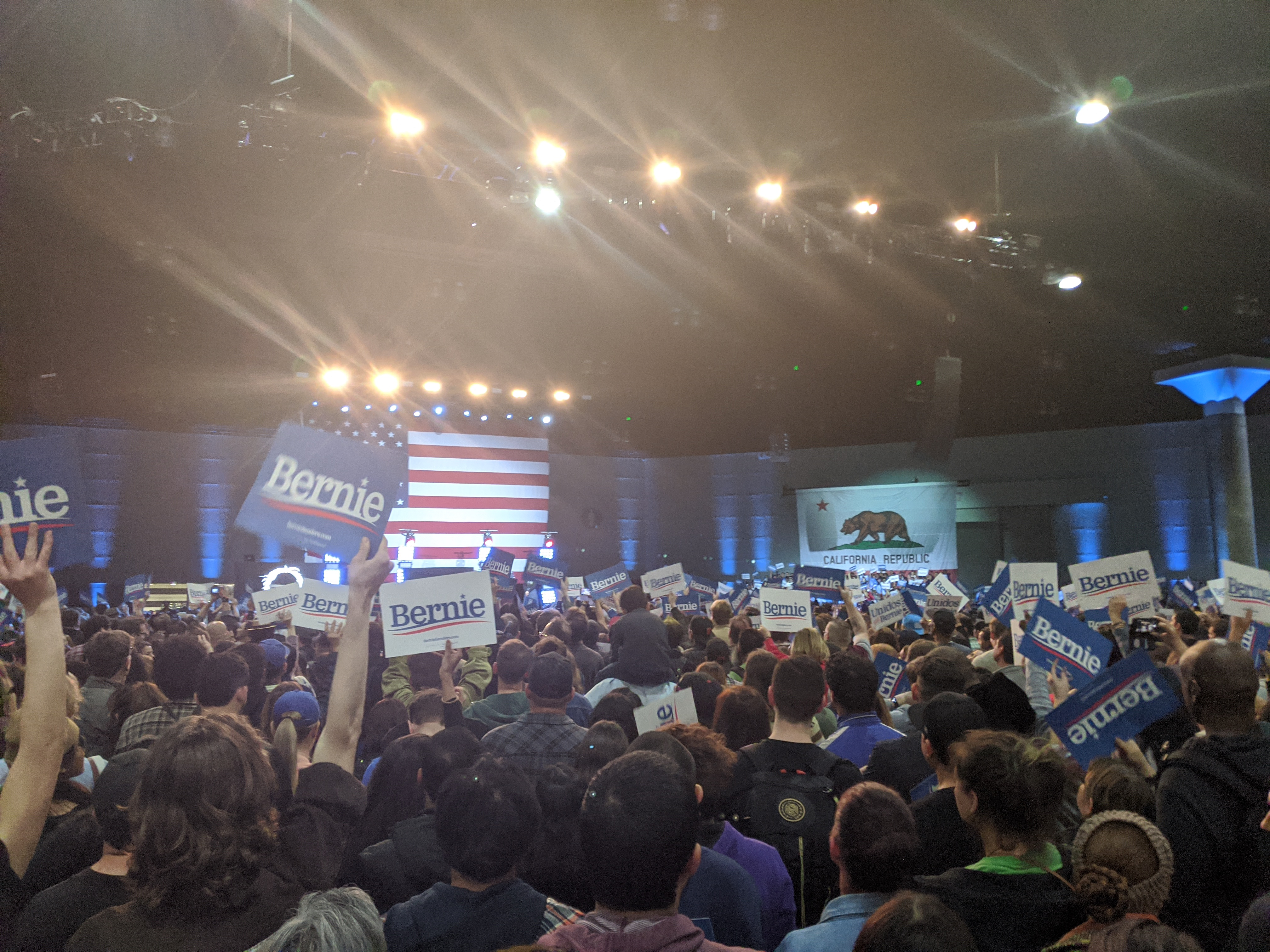 Signs, Bernie Sanders Rally, LA Convention Center, Los Angeles, California, USA